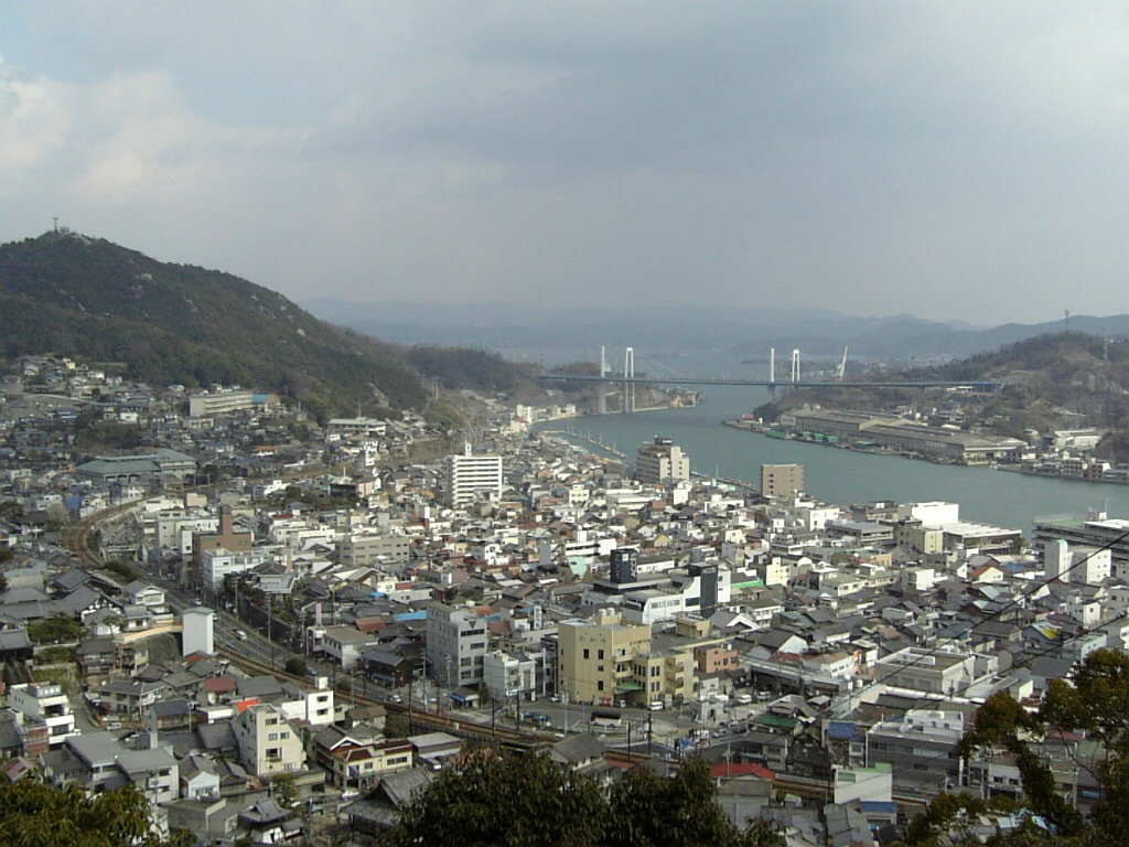 The view of Onomichi from Senko-ji temple.